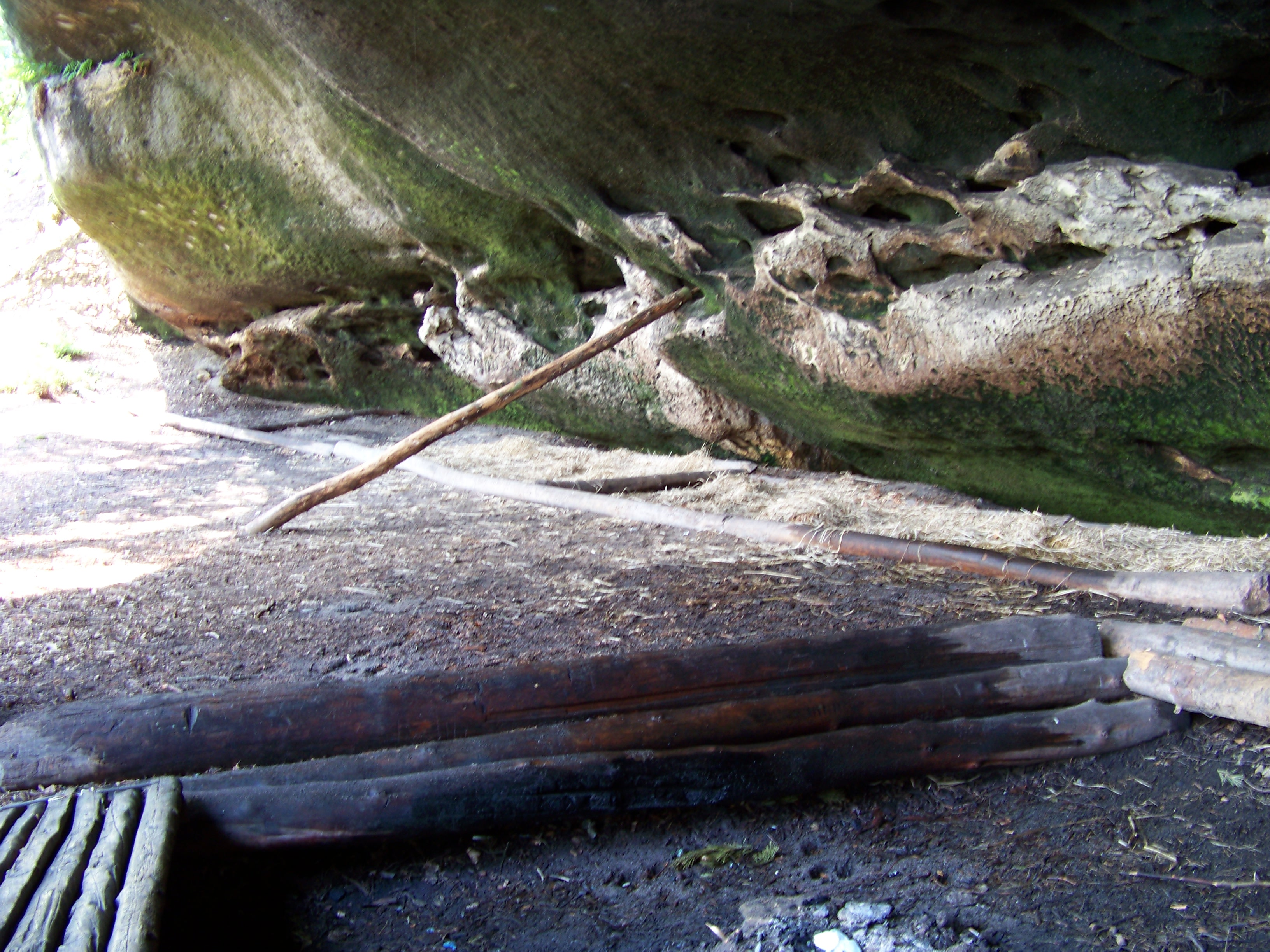 Tisícový kámen, a sandstone half-cave. Protected Landscape Area of Kokořínsko. (Cadastral area of Tuhanec, Česká Lípa District, Liberec Region, the Czech Republic.)